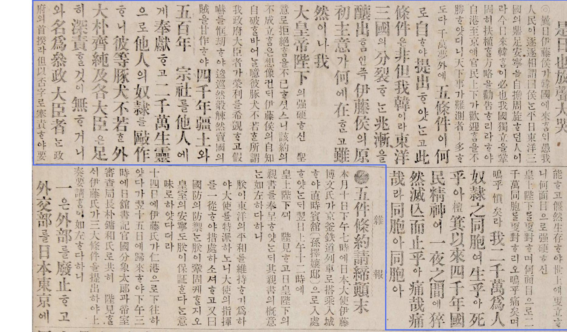 Editorial of Jang Jiyeon in the Hwangseong sinmun of November 20, 1905, lamenting the loss of Korean sovereignty to Japan.